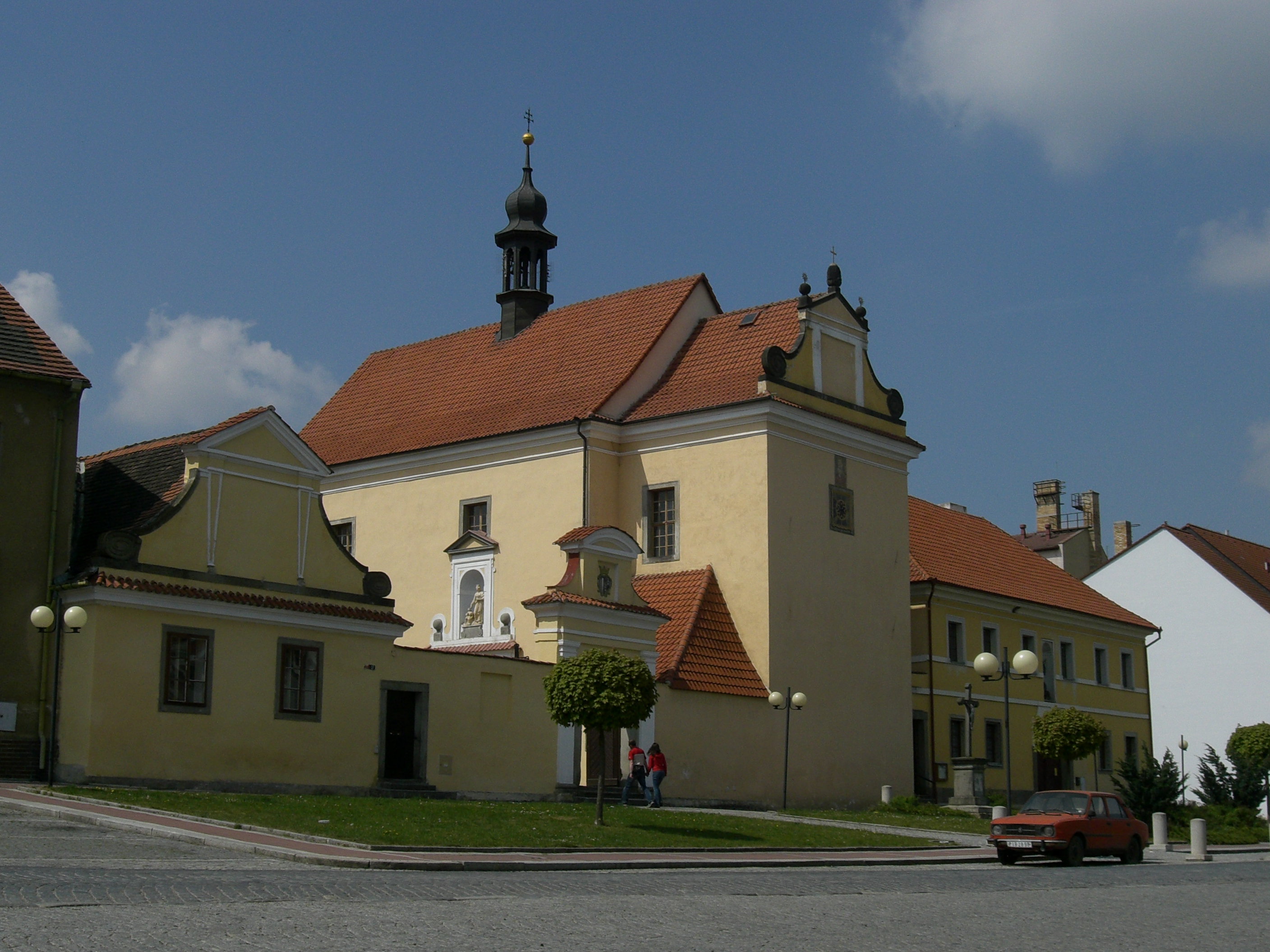 Church of sant Alžběta in Protivín, Písek district, Czech Republic. Main gate.